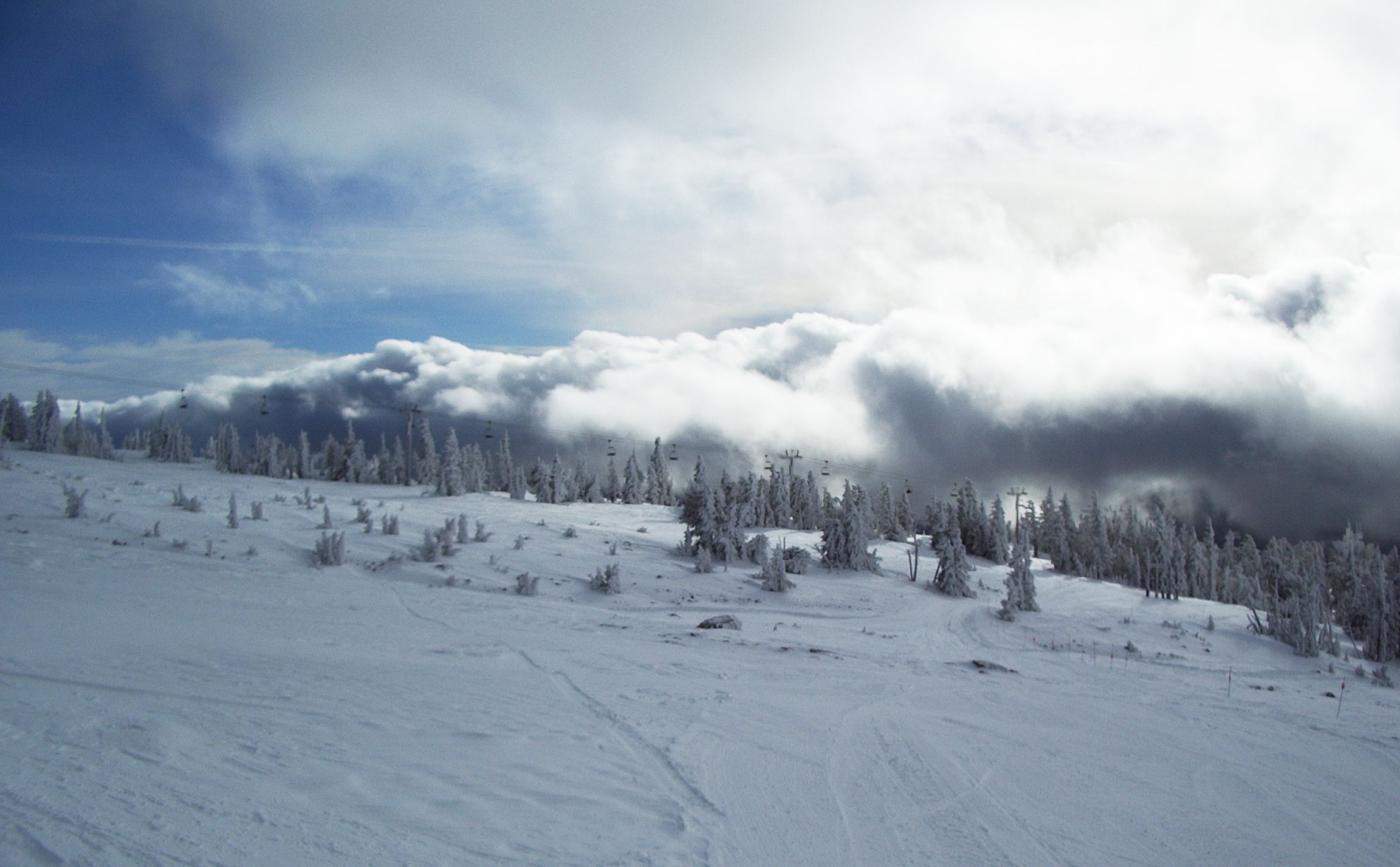 The current Magic Mile detachable quad chair at Timberline Lodge ski area rises out of the lower mountain clouds